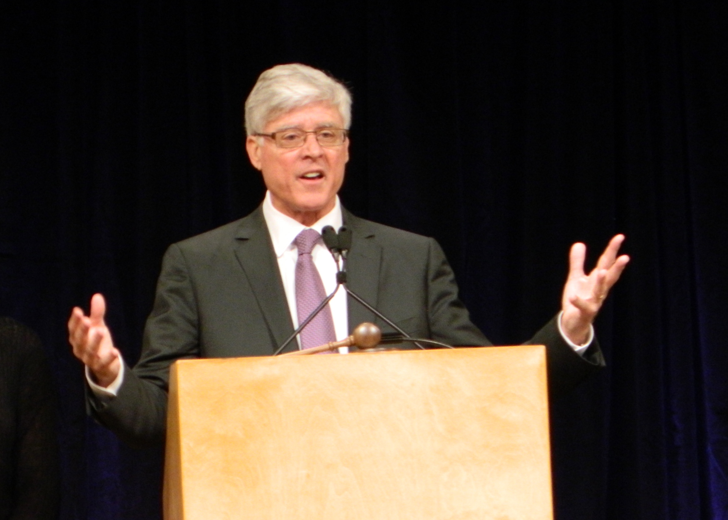 Minneapolis politician Mark Andrew at the 2013 DFL nomination convention at the Minneapolis Convention Center